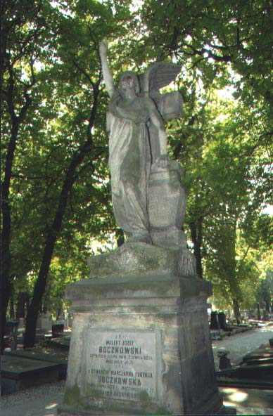 Tomb Boczkowski, Necropolis in Lublin in Poland. Sculpture by Antoni Kurzawa (1842-1898).